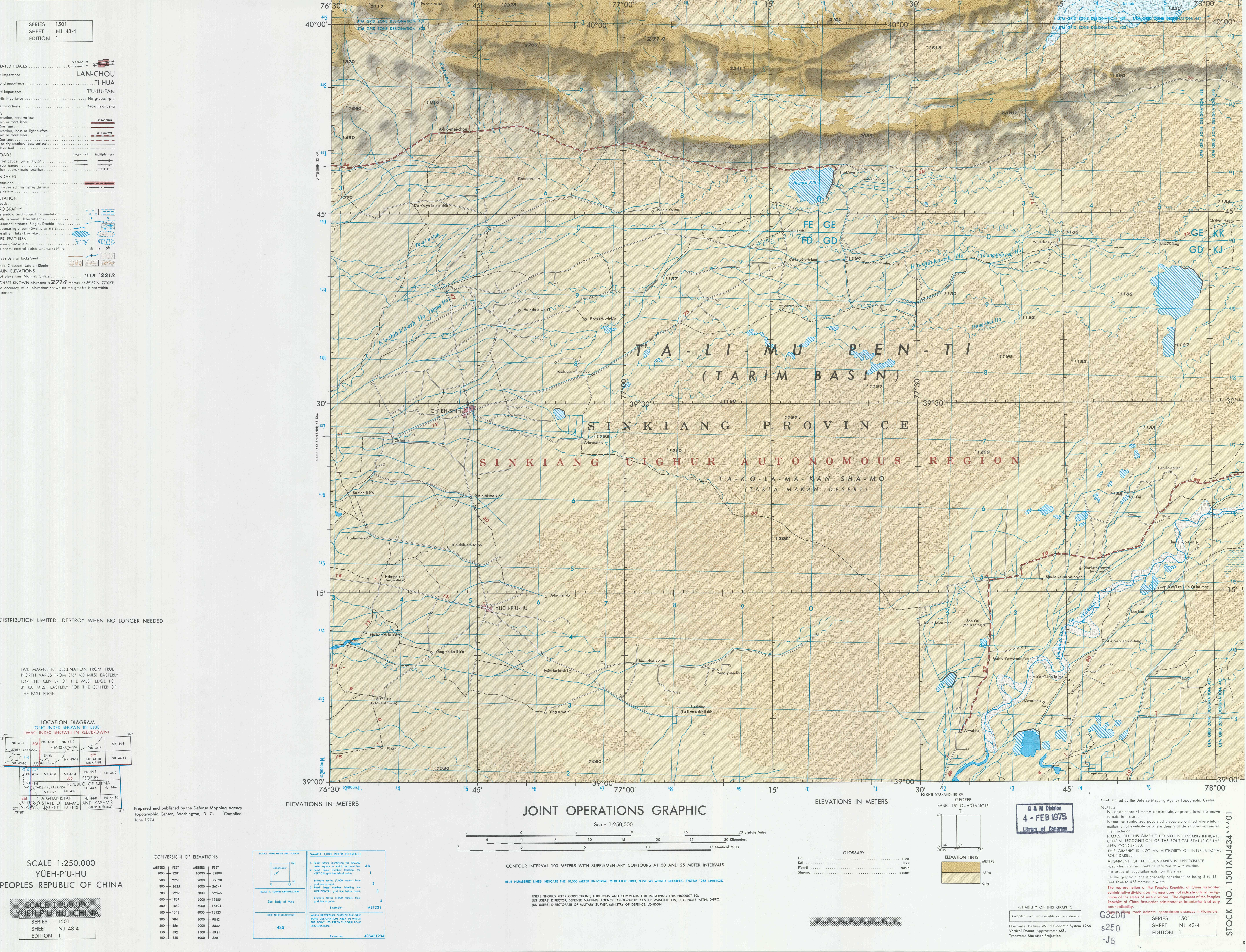 NJ-43-4 Yueh Pu Hu, China